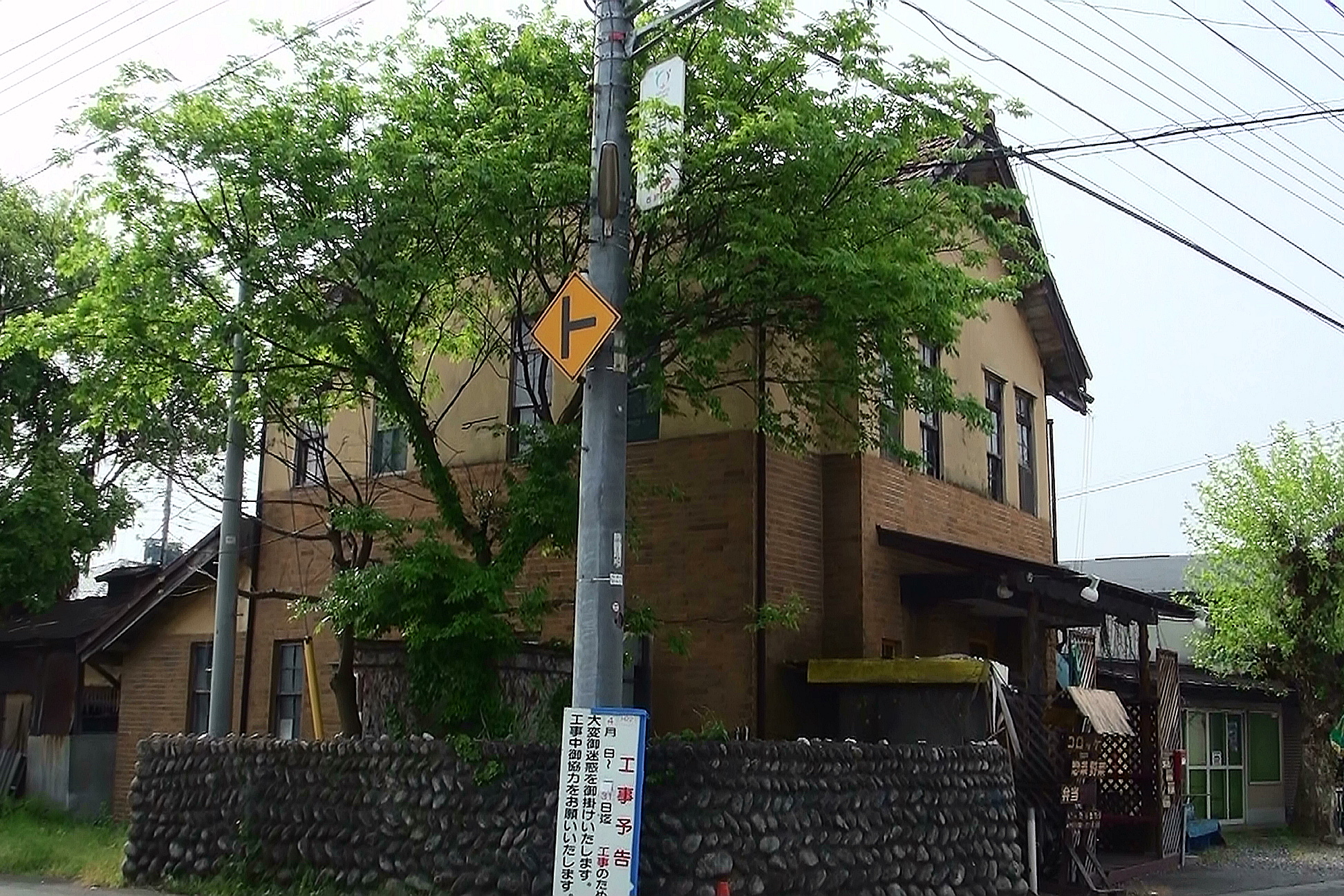 Koikawa post office where cultural assets are old